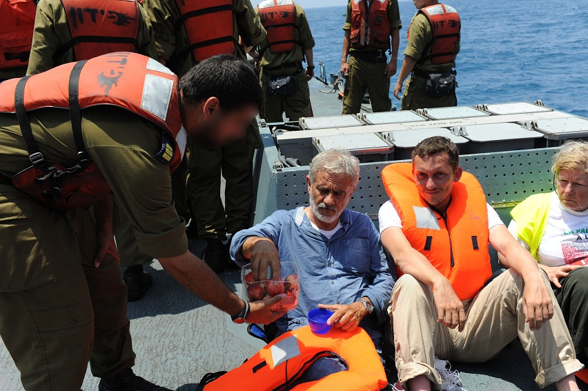 July 19, 2011 Following the Israel Navy's interception of the Free Gaza Movement's Al-Karama ship which sought to break the naval blockade surrounding the Gaza Strip, Navy soldiers hand out food and water to the passengers aboard the ship. In accordance with government directives, after all diplomatic channels had been exhausted and continuous calls to the vessel had been ignored, and upon expressing their unwillingness to arrive at the Ashdod port, IDF Navy soldiers boarded the Al-Karama in an effort to stop it from breaking the maritime security blockade on the Gaza Strip. The soldiers operated in line with procedures and took every precaution necessary while ensuring the safety of the soldiers. Following the boarding, the passengers’ health was examined and they were offered food and beverages.